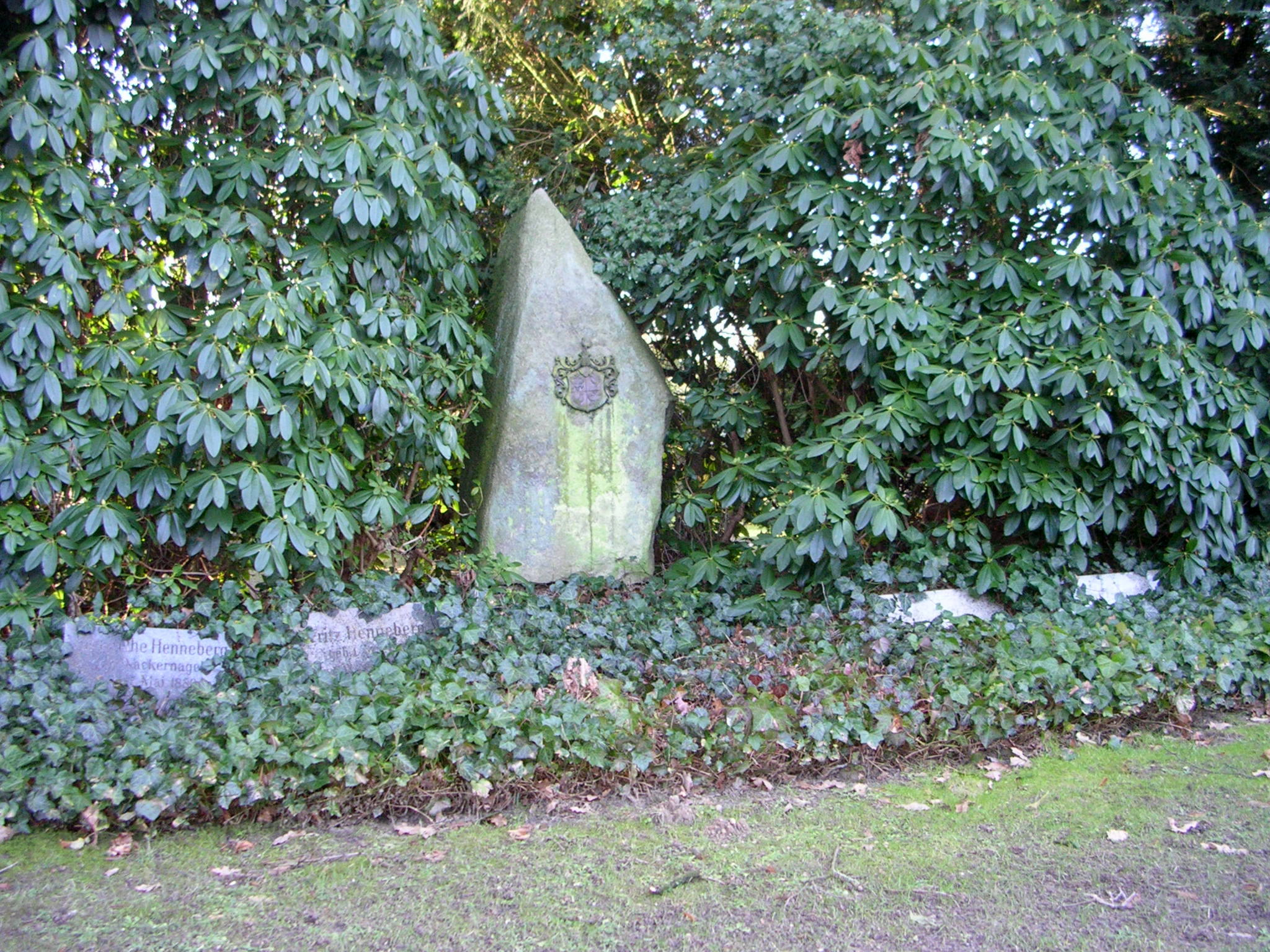 Family grave Henneberg of 1899 at cemetery Hamburg-Bergstedt, map R 48-53 / 29-35. This is a photograph of an architectural monument. (1156)